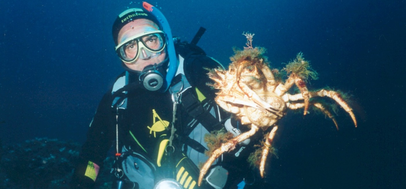 Marco Busdraghi with huge crab in Foradadda Island Capo Caccia Alghero Sardinia